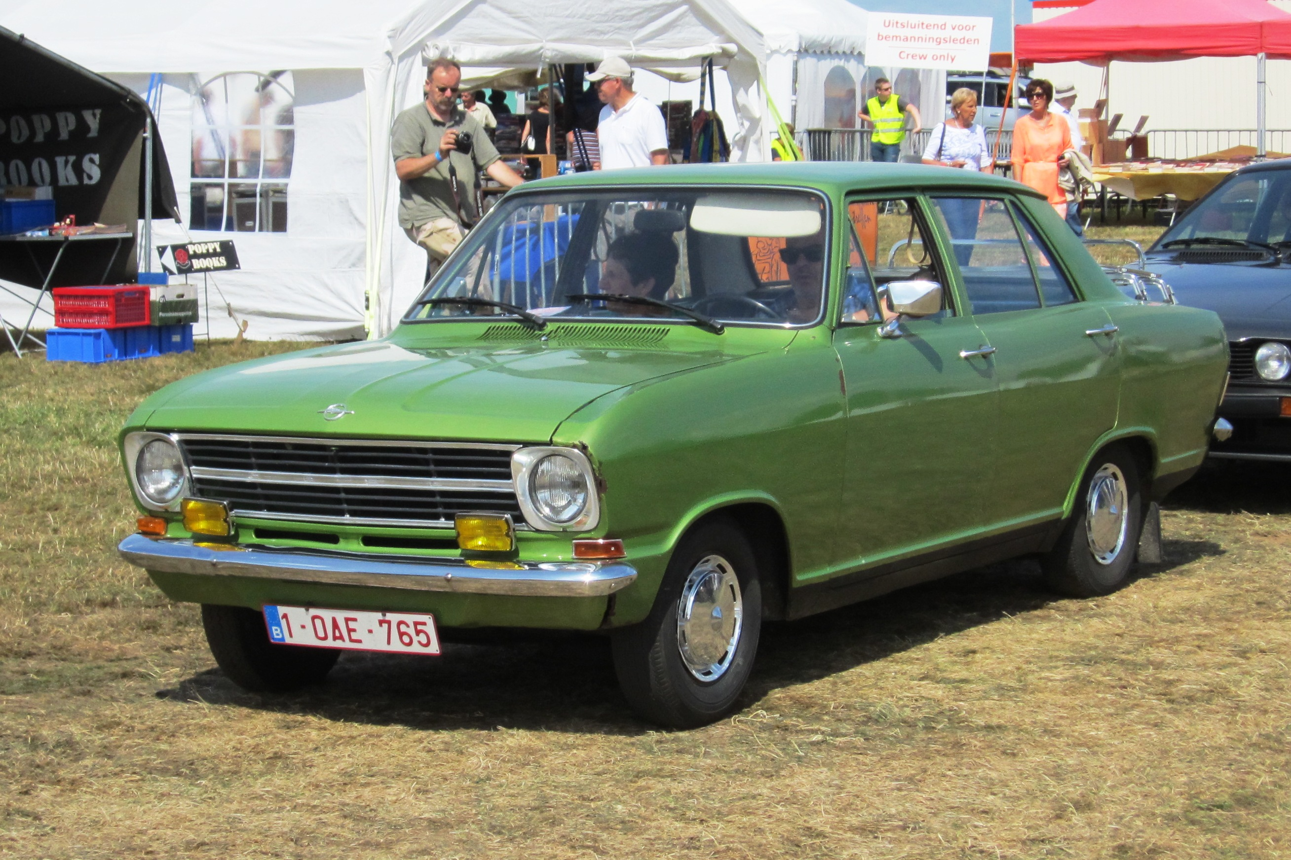 Opel Kadett B 4-door